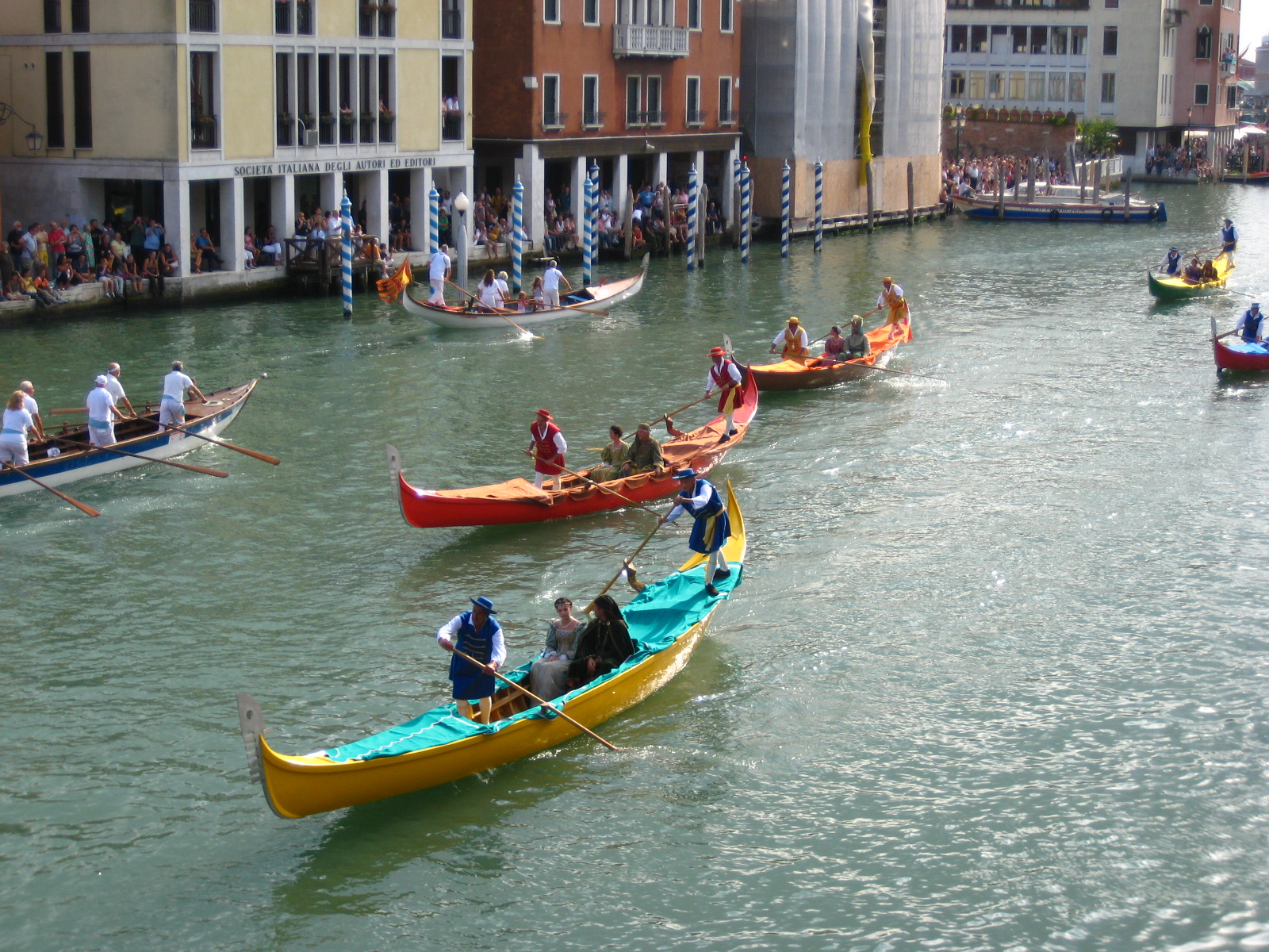 The 2008 edition of the Regata Storica di Venezia, in Venice (Italy), being a regatta in historical costumes.